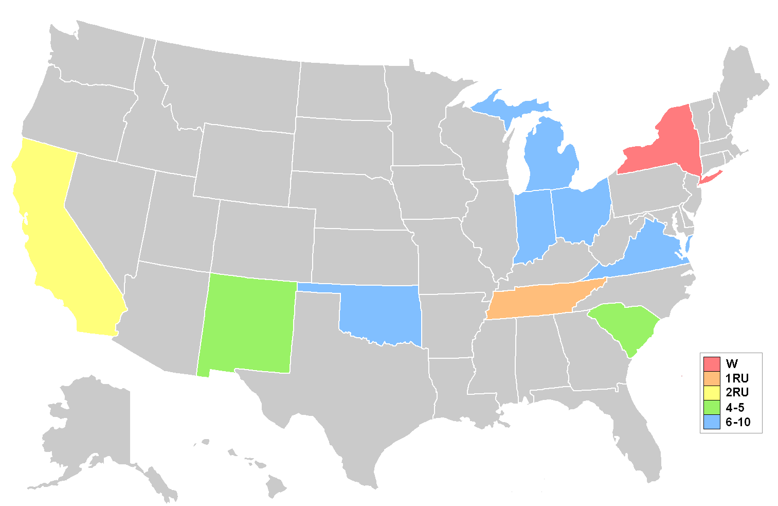 Map showing placements at the Miss USA 1999 pageant. Key on graphic shows colour coding for break down of placements.